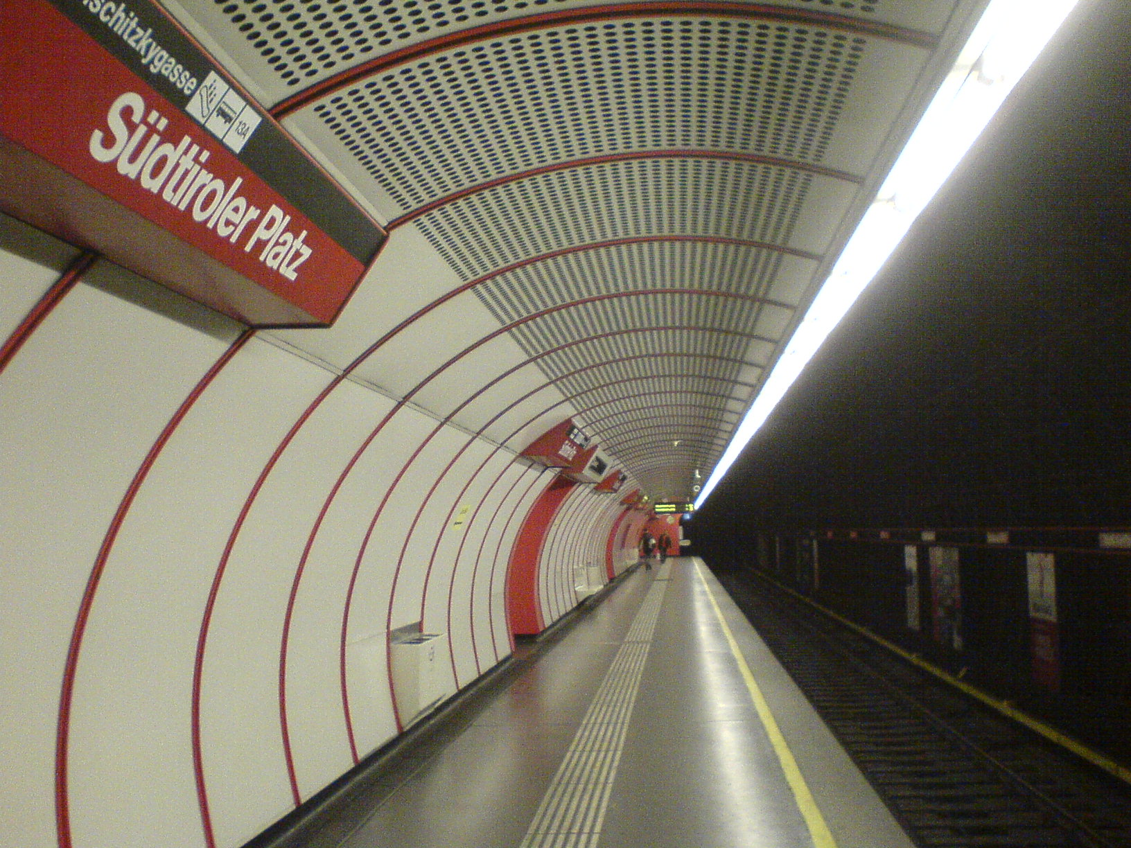 Platforms of the Vienna Underground Station Südtiroler Platz